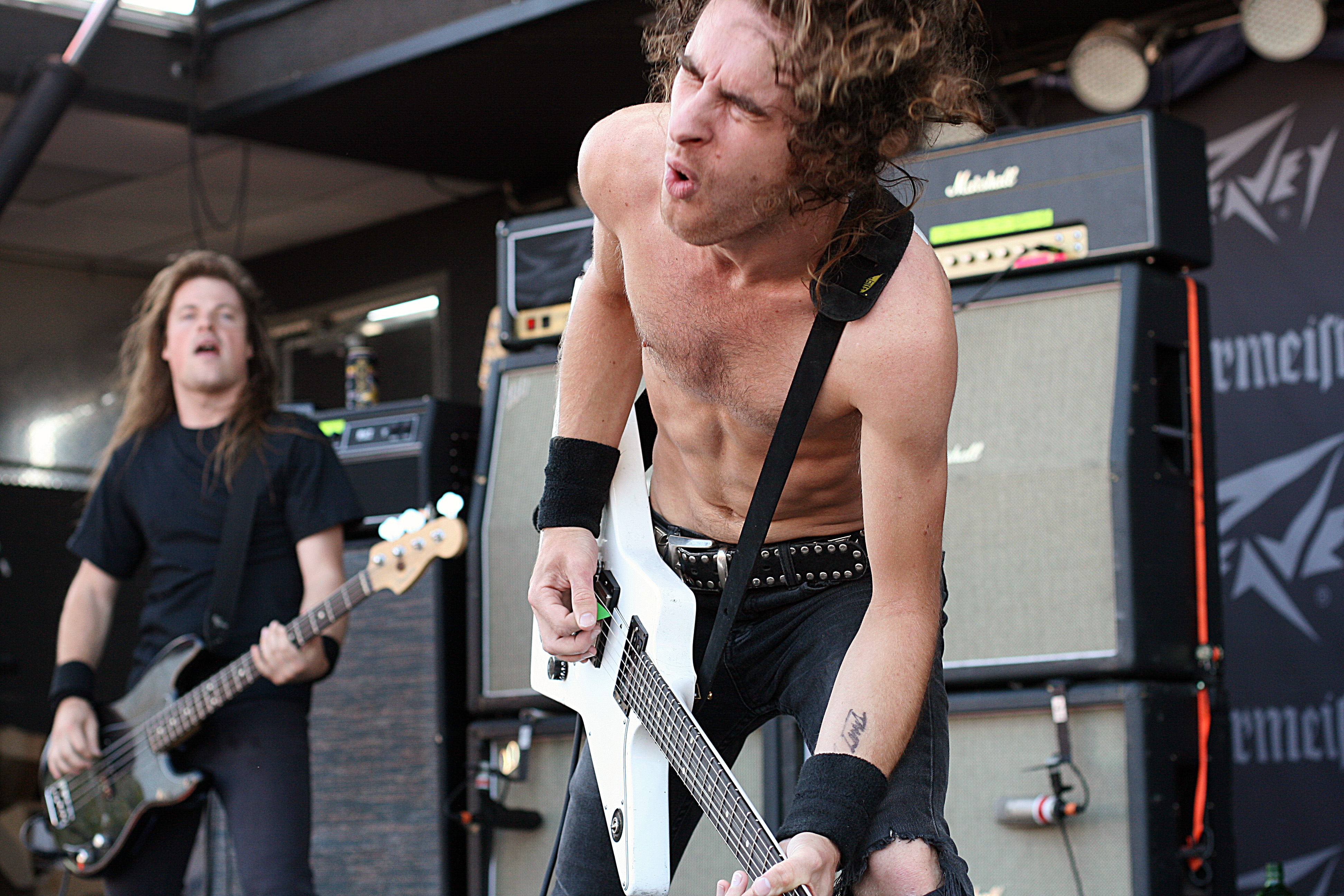 Joel O'Keeffe and David Rhoads live